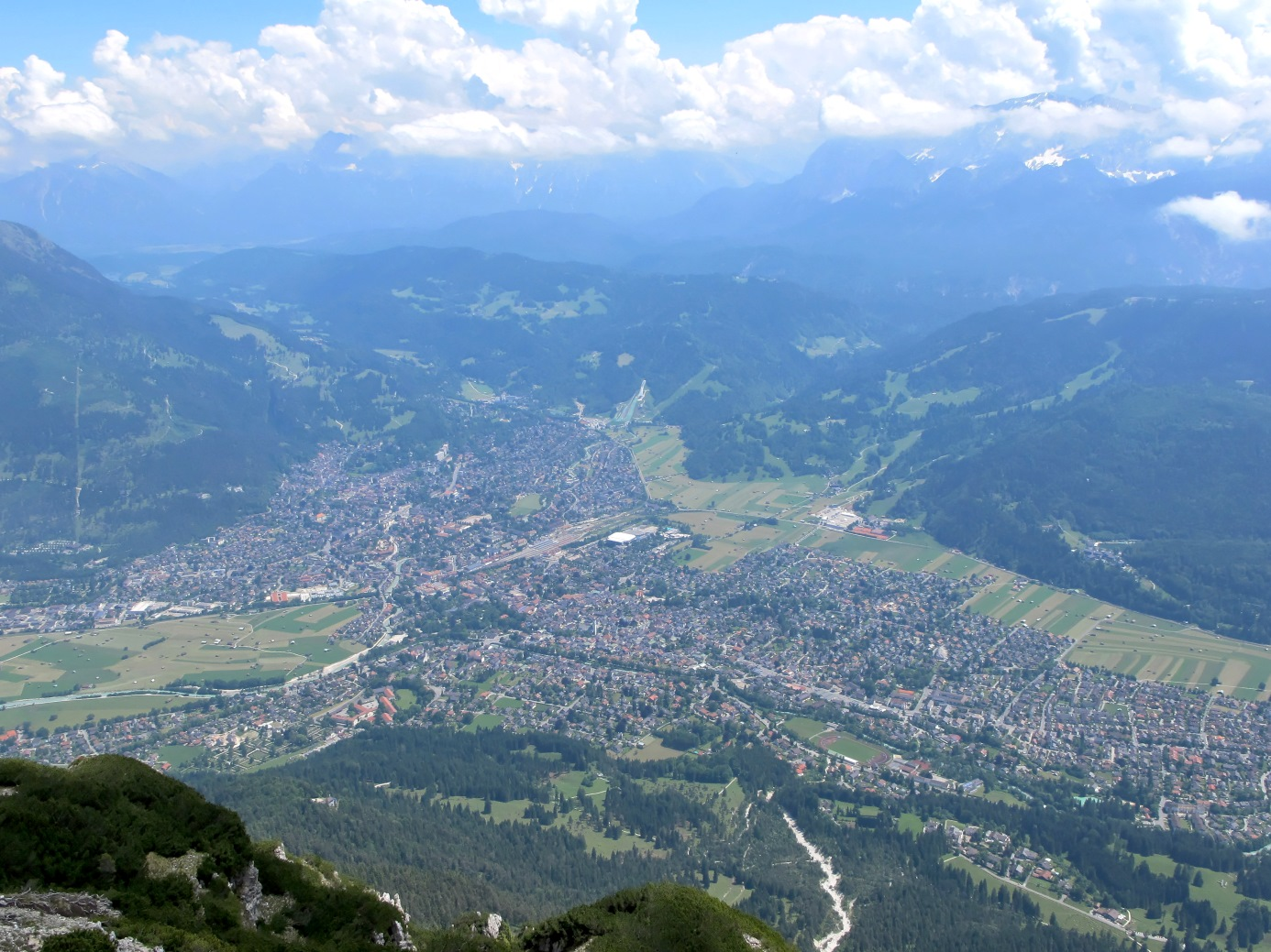 Garmisch-Partenkirchen, seen from the mountain "Kramer" in the Ammergauer Alps